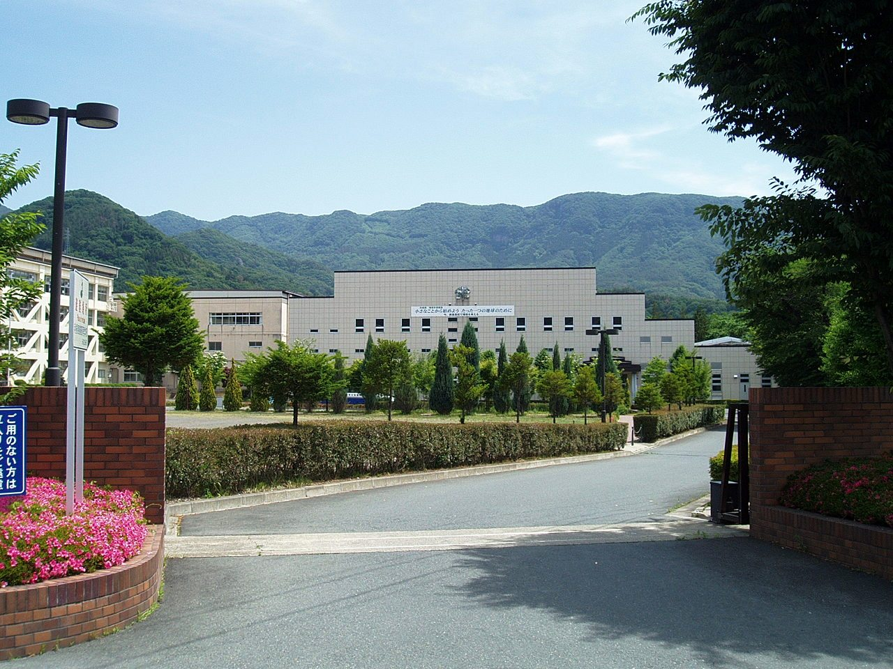 The 2nd Gymnasium of Tone Commercial High School viewed through the main gate. Located in Minakami (formerly Tsukiyono), Gunma, Japan.